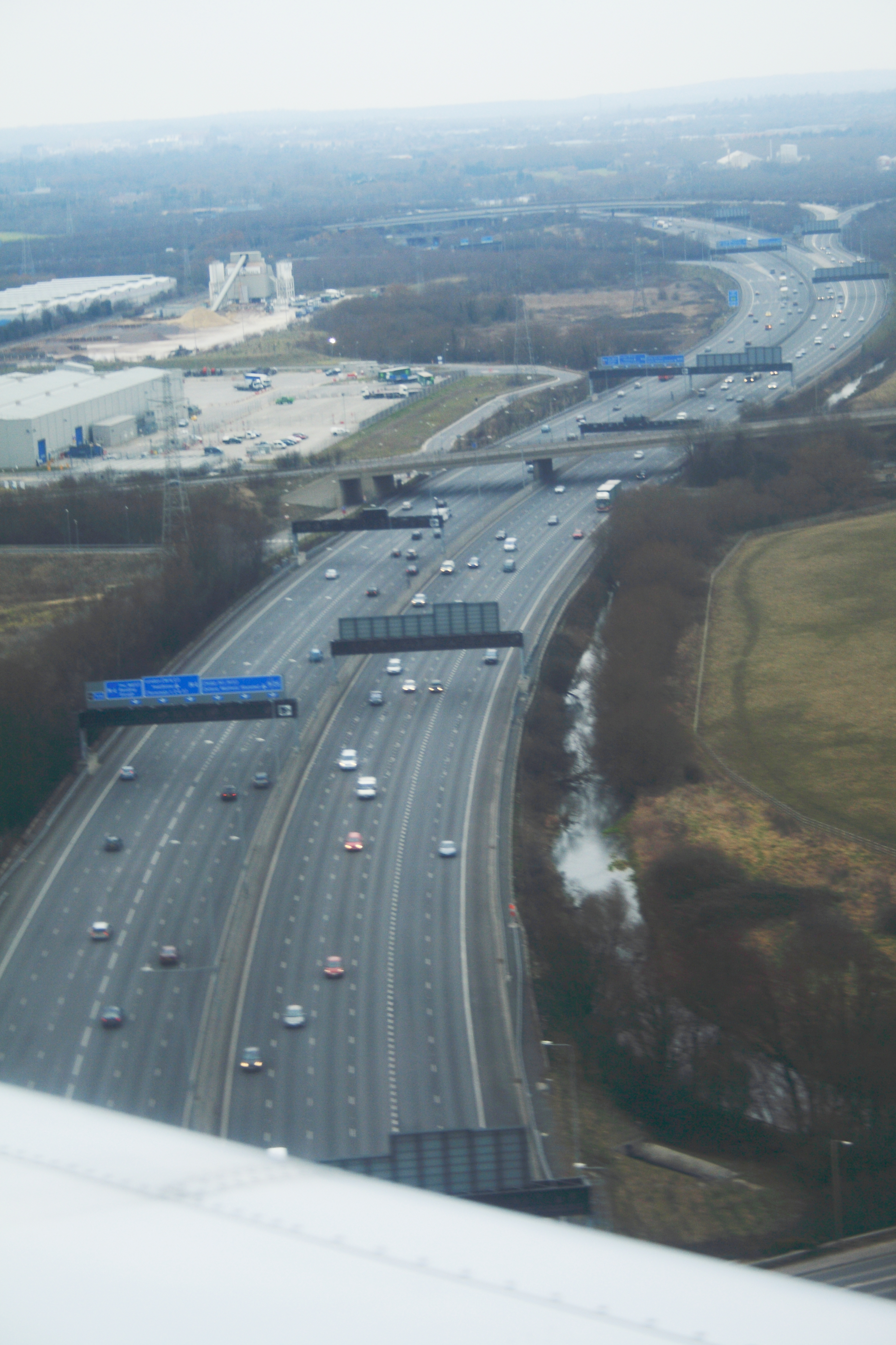 Aerial view of the M25 Motorway between Heathrow Airport and the M4-M25 junction, looking north, taken from an altitude of 201 meters above sea level. The motorway runs below the bridge that carries the A4 Colnbrook Bypass.